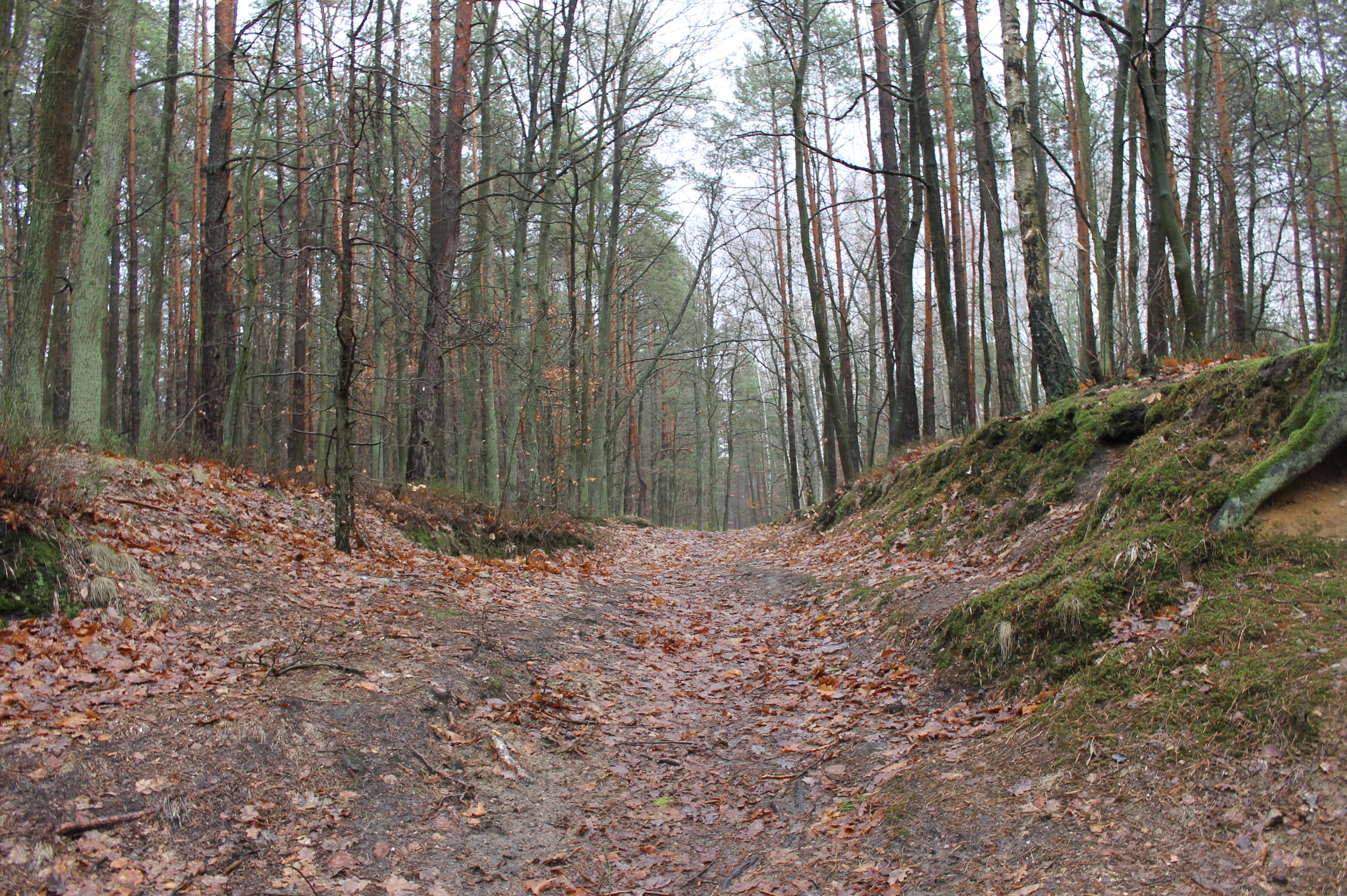 Będzelin village forest (2015)